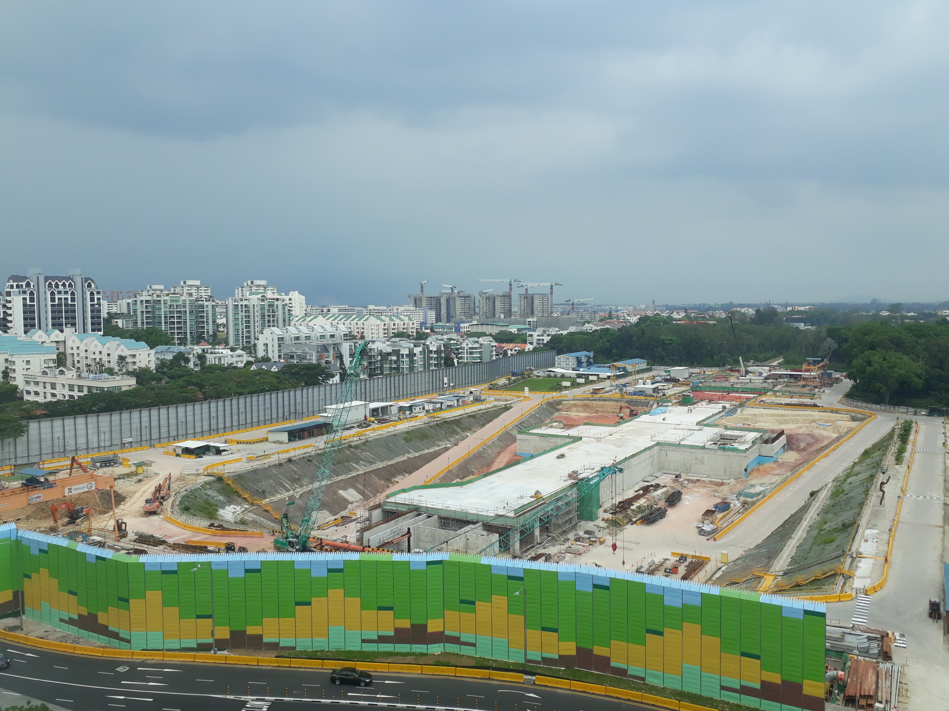 Bayshore Under Construction